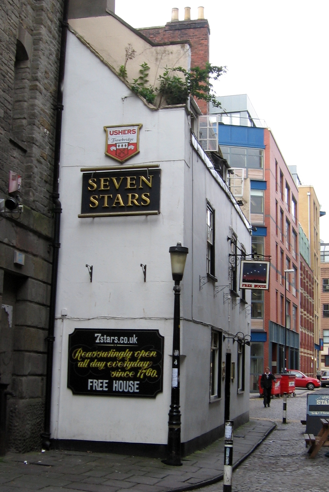 Seven Stars public house, Bristol, UK. Listed Grade II [1] The landlord of the Seven Stars was of assistance to the abolitionist Thomas Clarkson in his researches on the slave trade